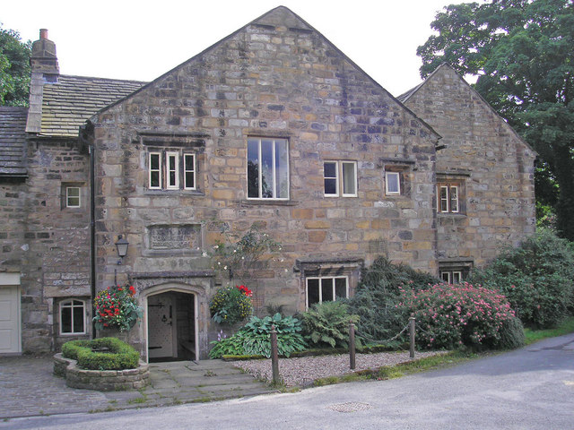 Hurstwood Hall, near to Hurstwood, Lancashire, Great Britain. Built by Barnard Towneley in 1579. The Towneleys became a very wealthy and important Catholic family in the Burnley area.